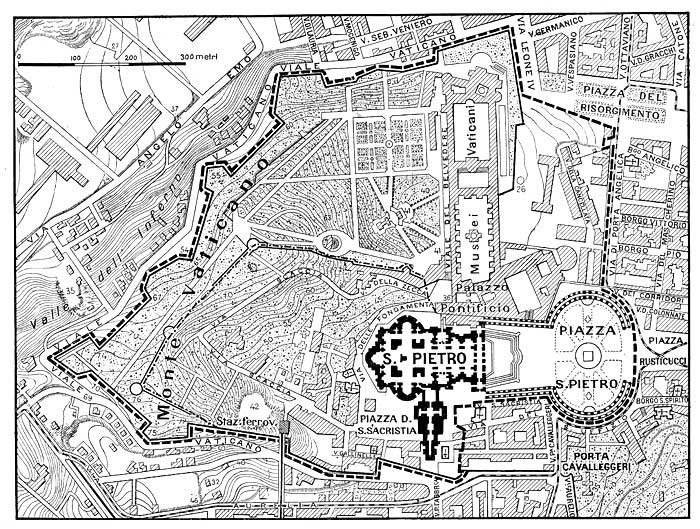 Maps of Vatican City, 1929